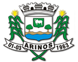 Brasão arinos mg